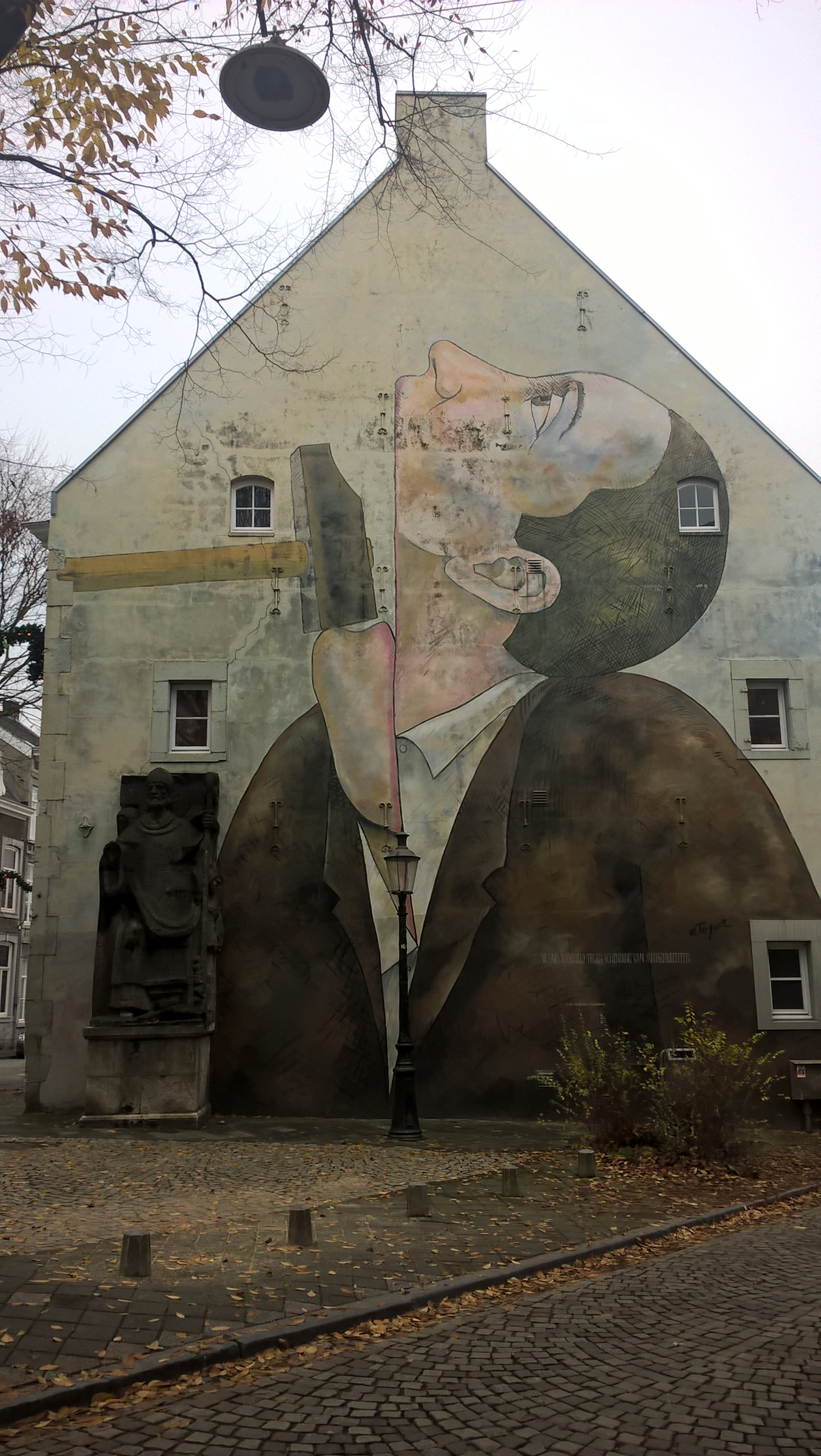 Mural by Ronald Topor, 1988, located at Tongersestraat, Maastricht, The Netherlands. On the left a statue of St Servatius by Jef Eijmael (1959).